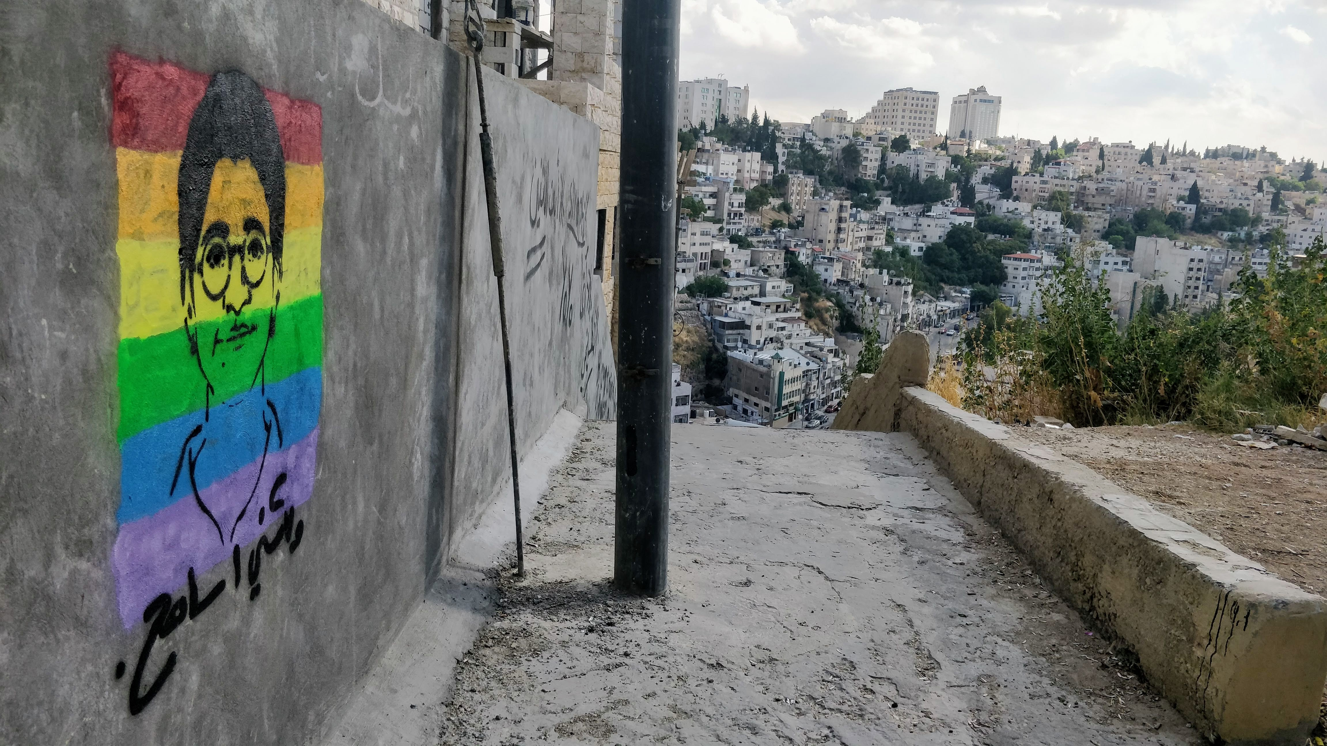 Mural of Sarah Hegazi in Amman, Lweideh. Now painted over.